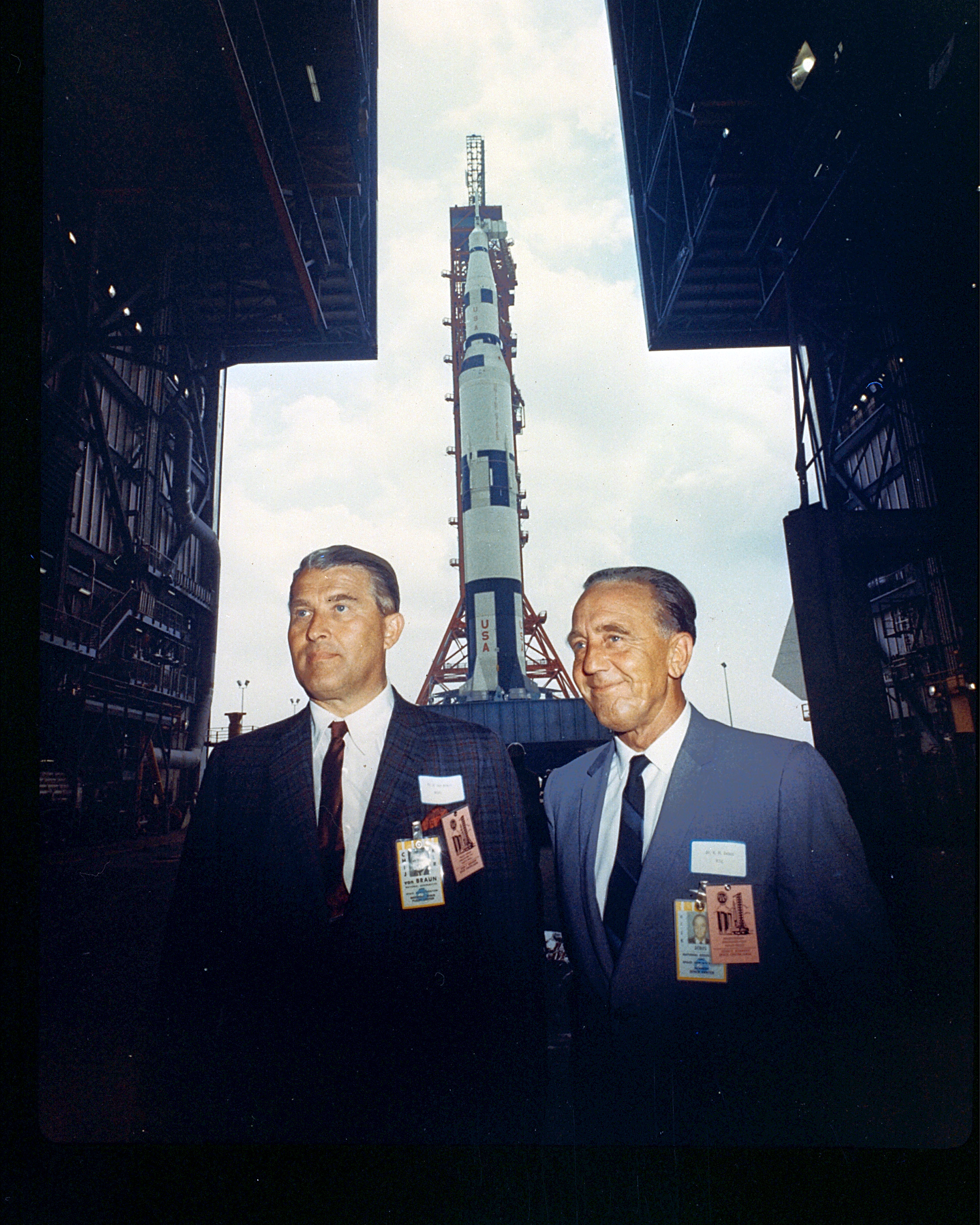 Dr. Werner Von Braun and Dr. Kurt Debus, Director of the Kennedy Space Center attending the Saturn 500F, rollout from the Vehicle Assembly Building (VAB). The Saturn 500F, after testing the VAB stacking operations, was used to test the crawler transport and Launch Pad 39A operations.